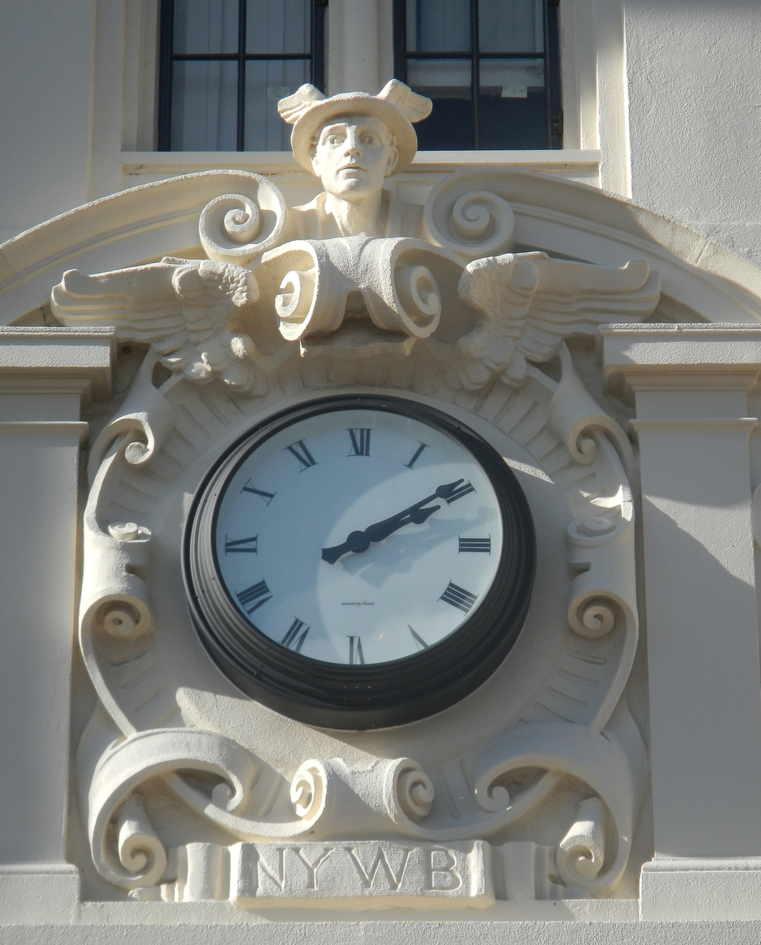 Looking northwest at station clock on a sunny early afternoon.